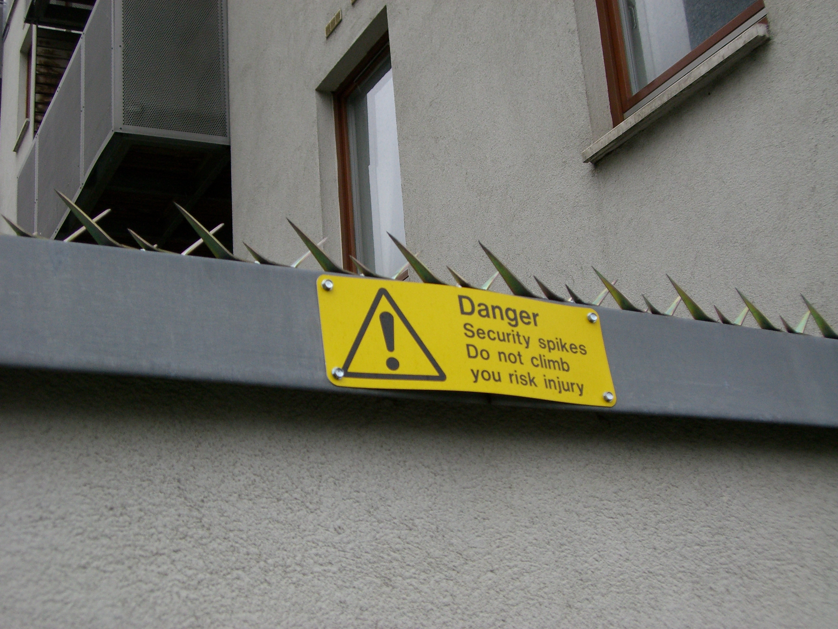 Security spikes on the fence of a gated community. Naylor Building East, 15 Adler Street, Aldgate, London E1 1HD The sign says Danger Security spikes Do not climb you risk injury Photo taken on 26 March 2006 with a Casio EX-S600.